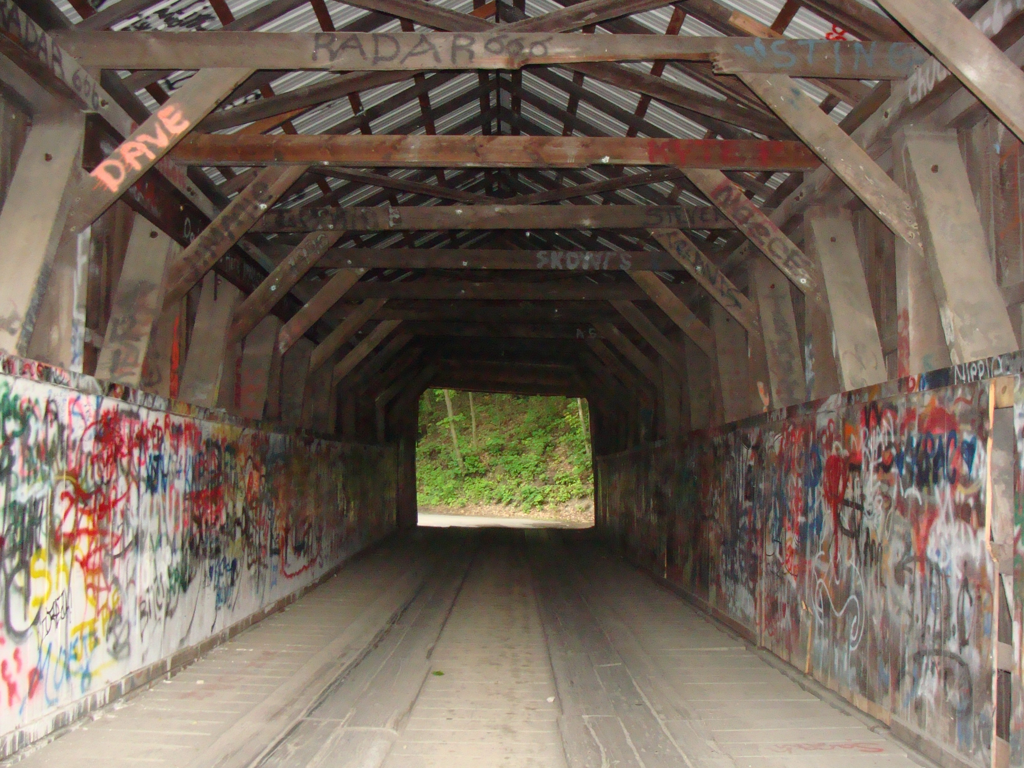 Interior of the Gudgeonville Covered Bridge, looking south. The bridge was destroyed by arson on 8 November 2008.